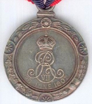 Mayor's and Provost's Medal for King Edward VII's Coronation 1902, reverse